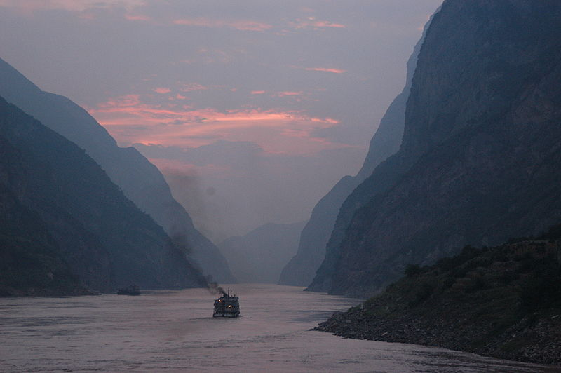 Beautiful image of dust on the Yangtze River in China. If you use this image please link to my China Cruise page you can also find additional images at our cruise pictures page but again please give credit thanks